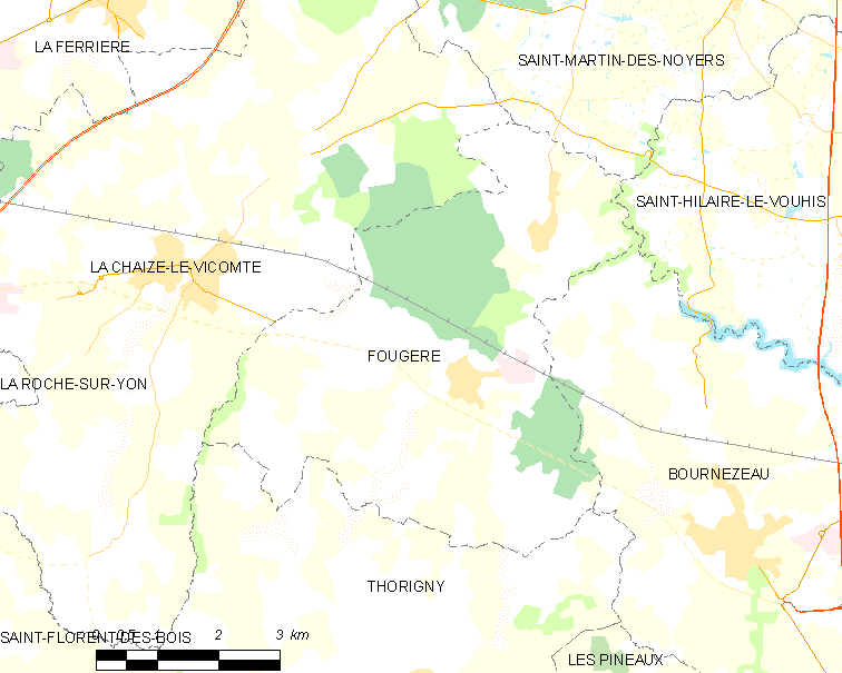 Map of French municipality Fougeré